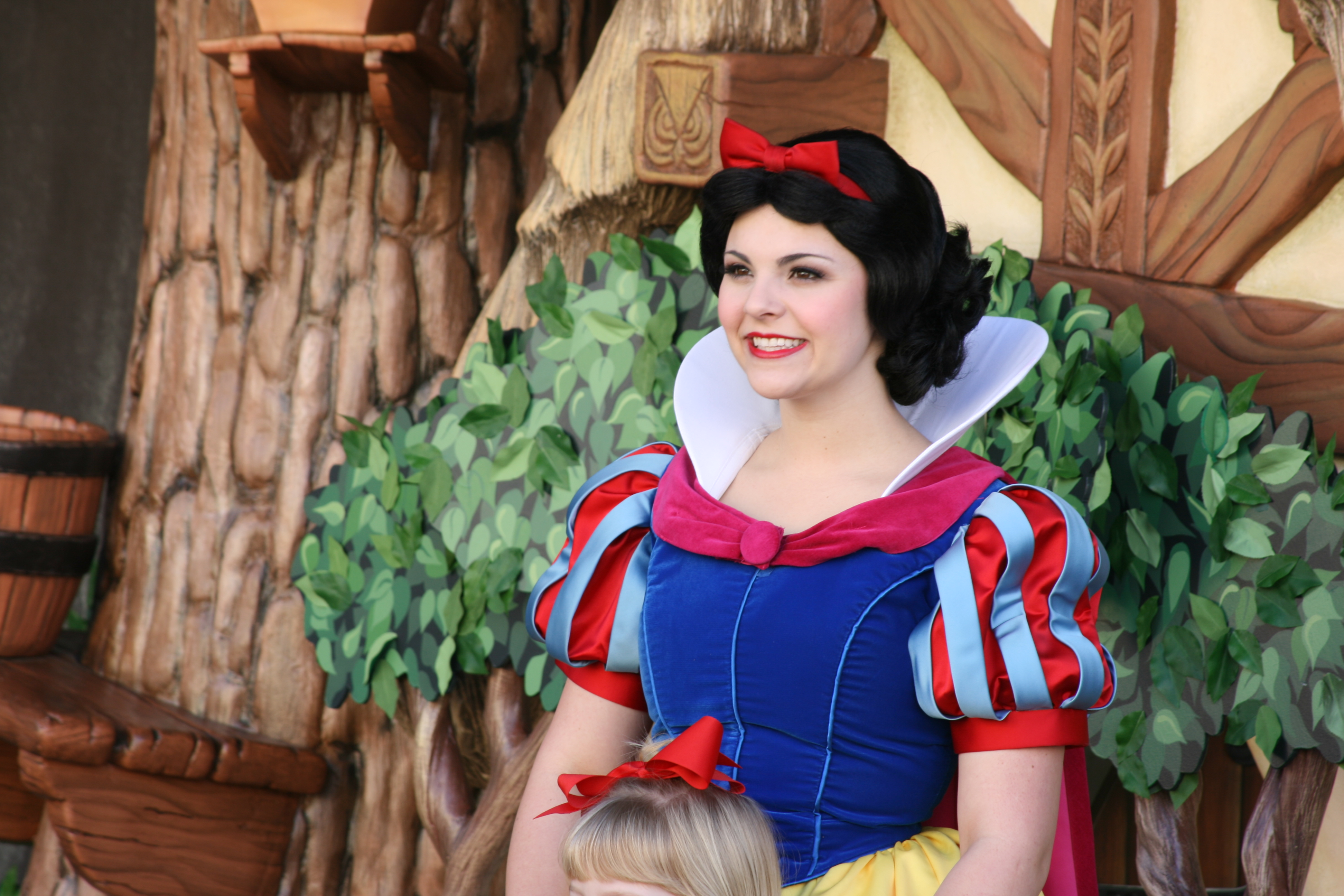 Actress as Snow White at Disney's California Adventure.